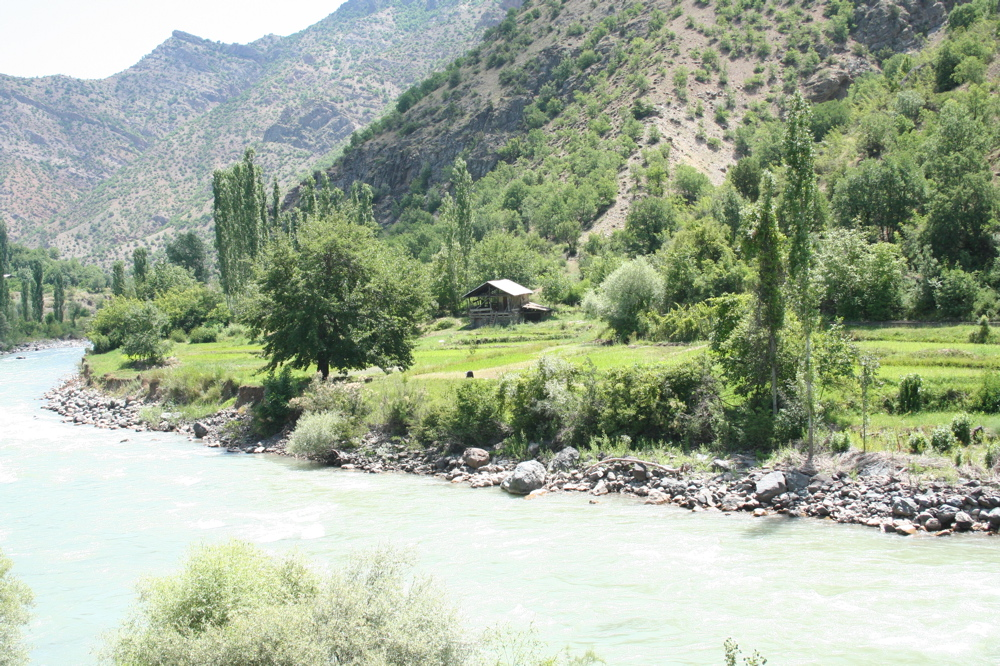 my own image of an area that will be flooded by the Yusufeli dam in the Coruh Catchment in Turkey